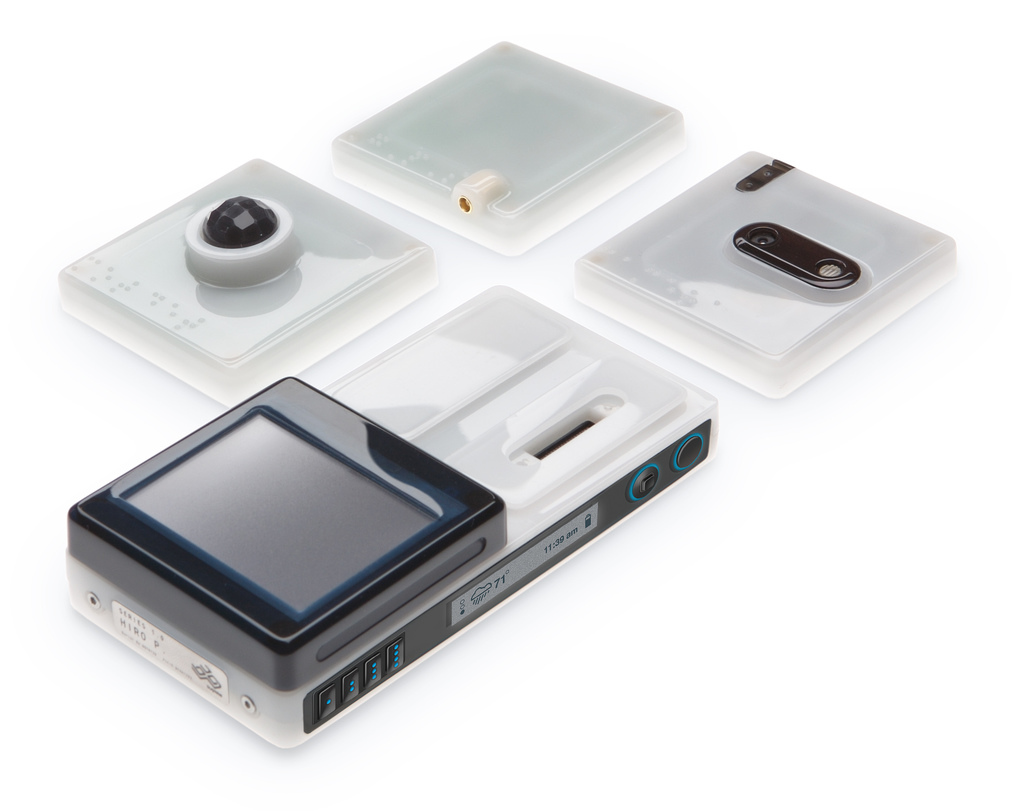 For more information, visit